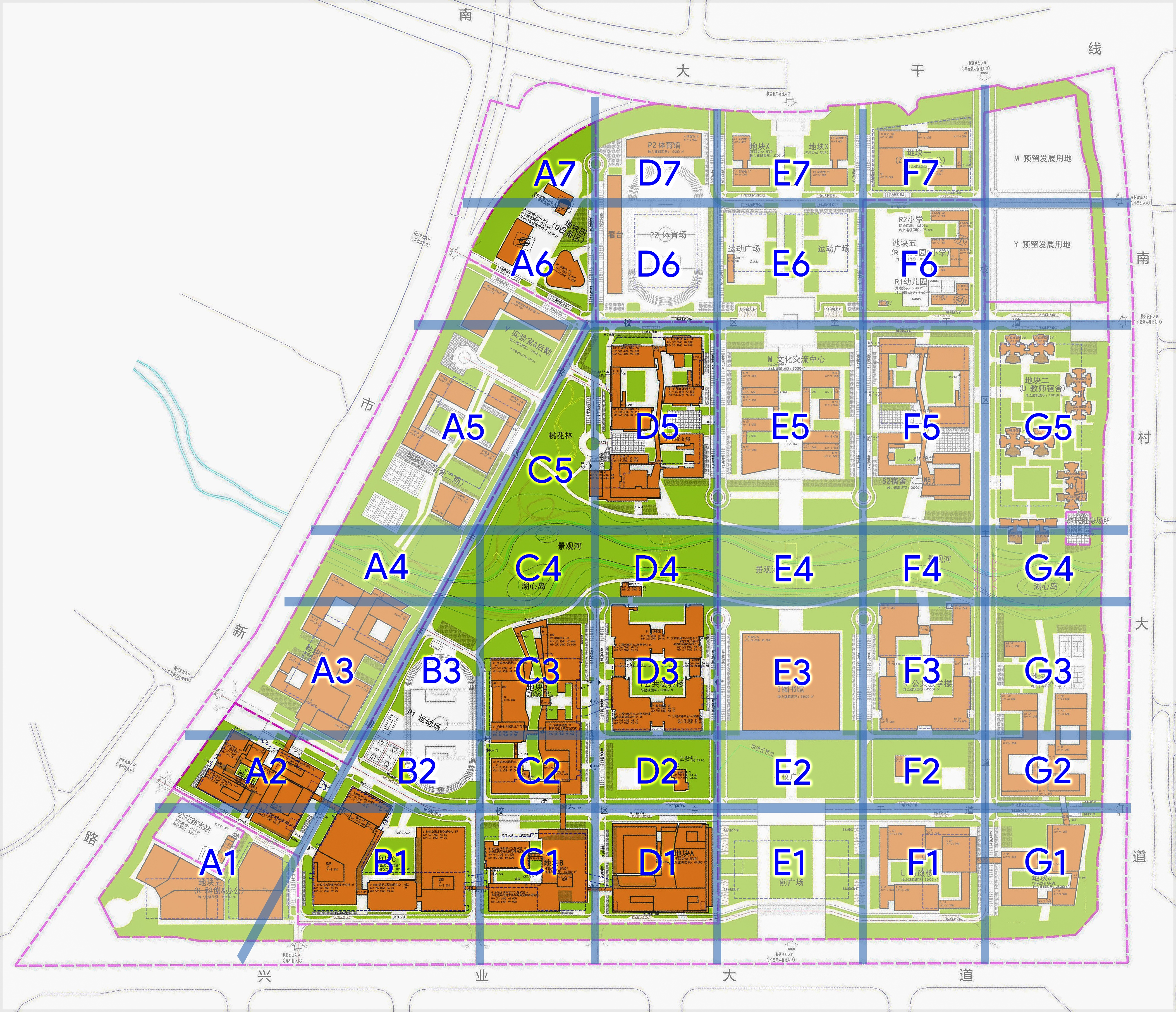 Zone Plan of Guangzhou International Campus, South China University of Technology (2018)